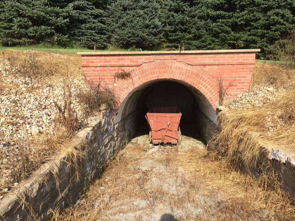 site of 1897 mining disaster